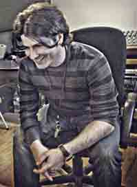 Mikael Johnston candid shot in studio C at The Zoo Studios in Oakland California